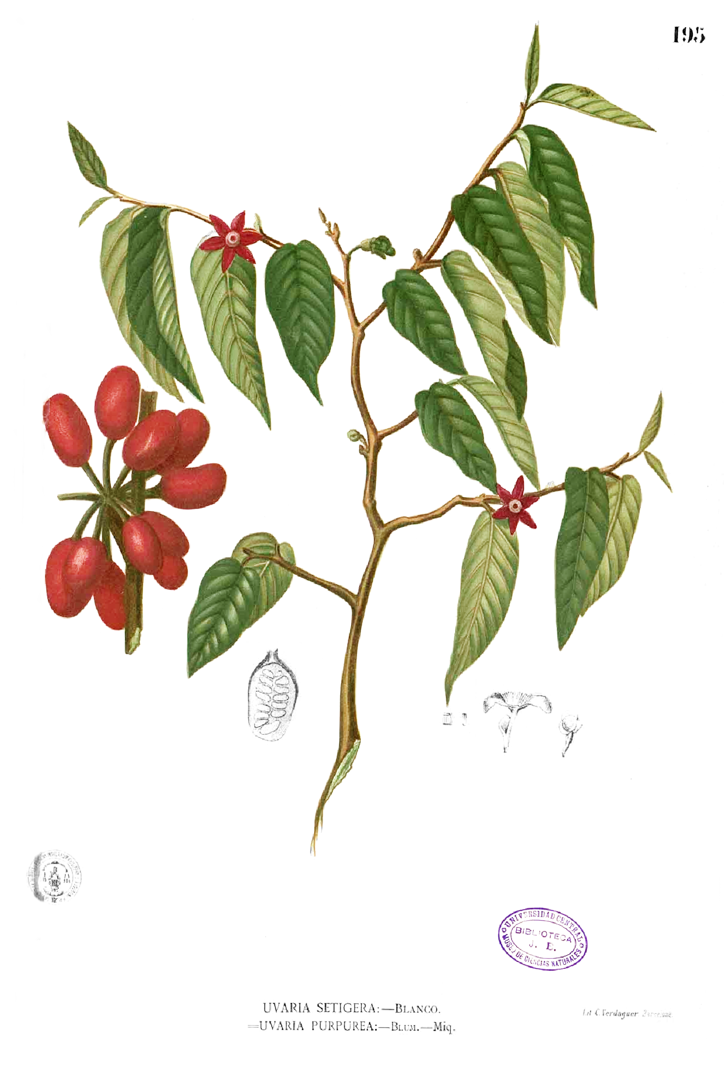 Plate from book